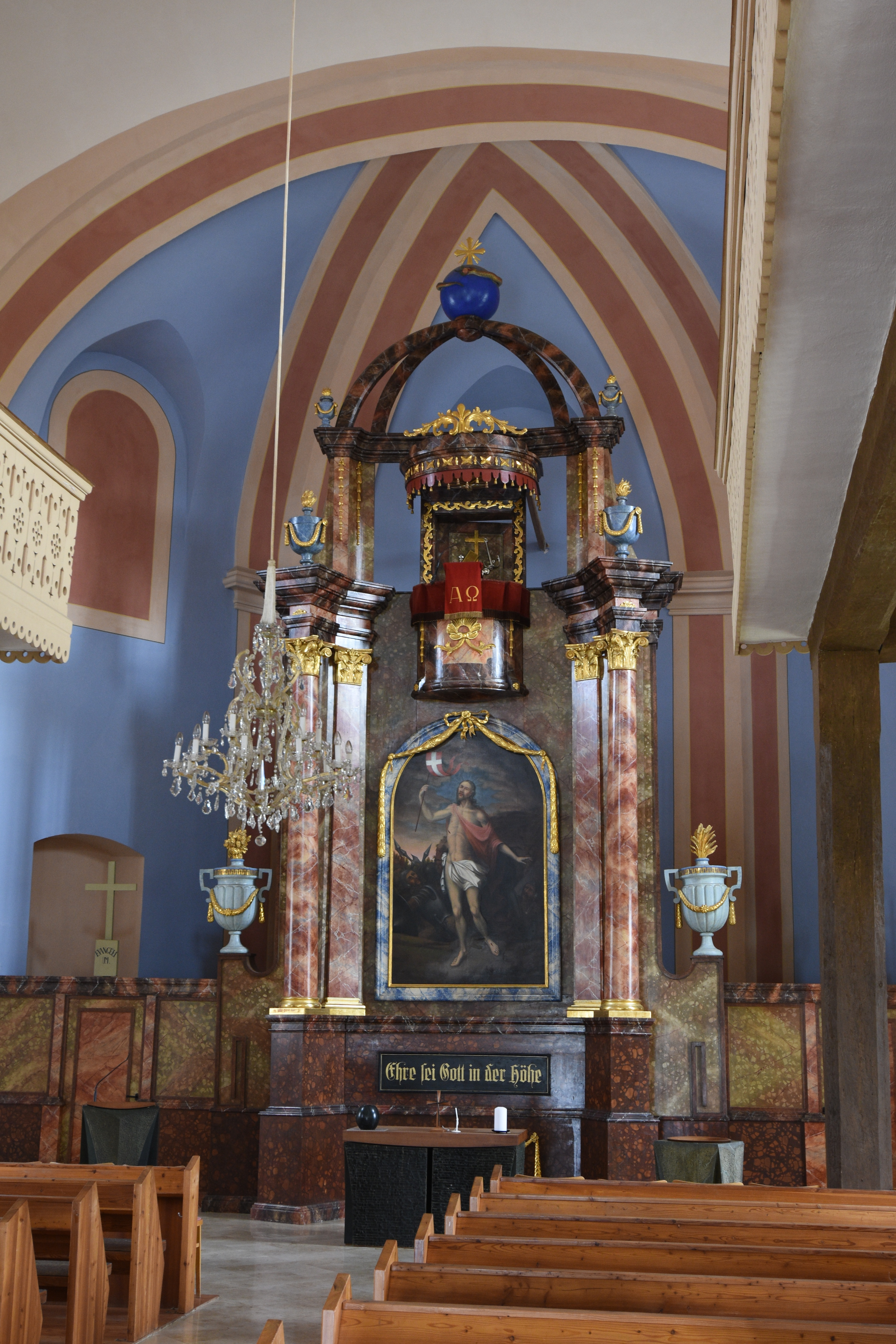 Church Unterschützen - Interior